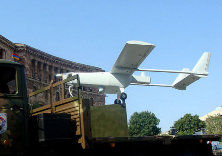 krunk armenian army